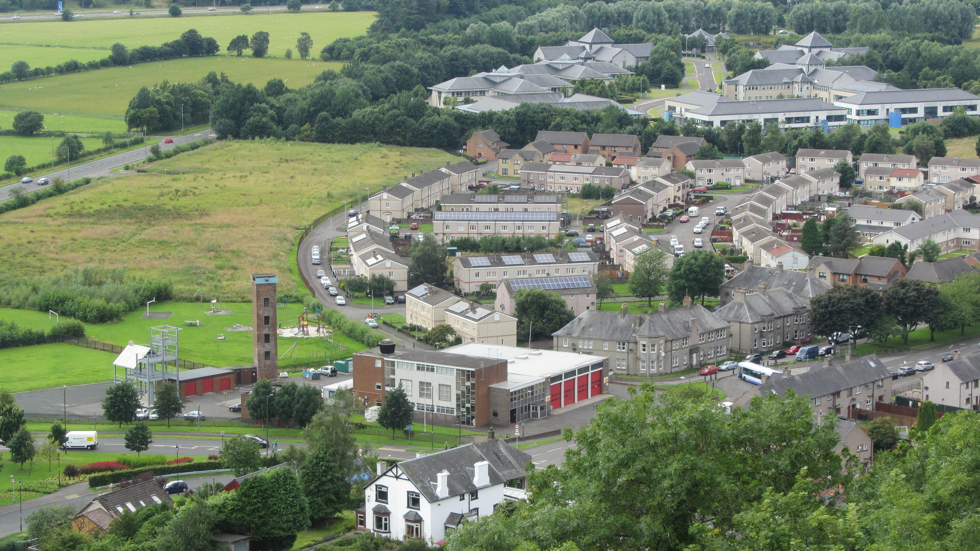 Looking towards Drip Road-Raploch from Stirling Castle